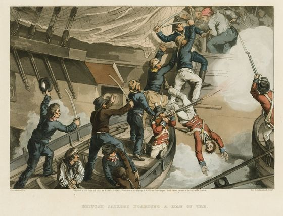 British Sailors Boarding a Man of War. This print represents the recapture of the British ‘Hermione’ in Puerto Cabello, Venezuela, by boats of the ‘Surprise’, two years after her crew had mutinied against the sadistic Captain Pigot, killed him and most of his officers, and handed the ship over to the Spaniards.